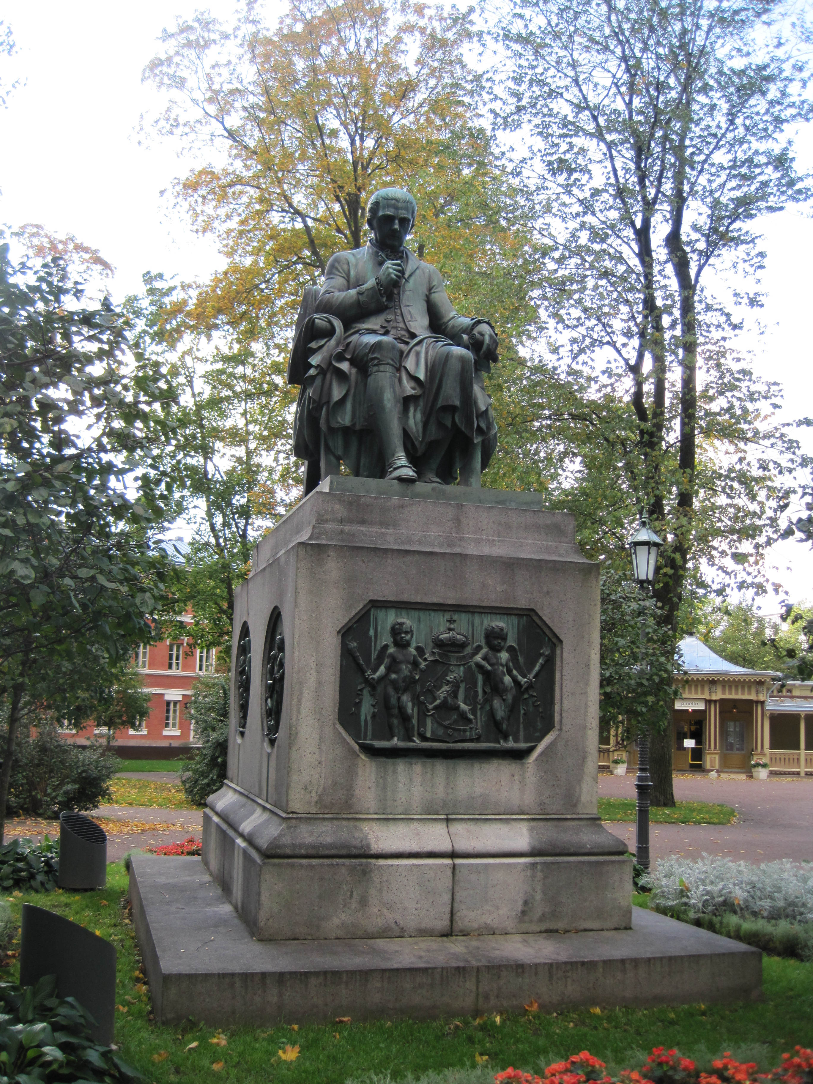 Statue of Henrik Gabriel Porthan, Turku, Finland check usage